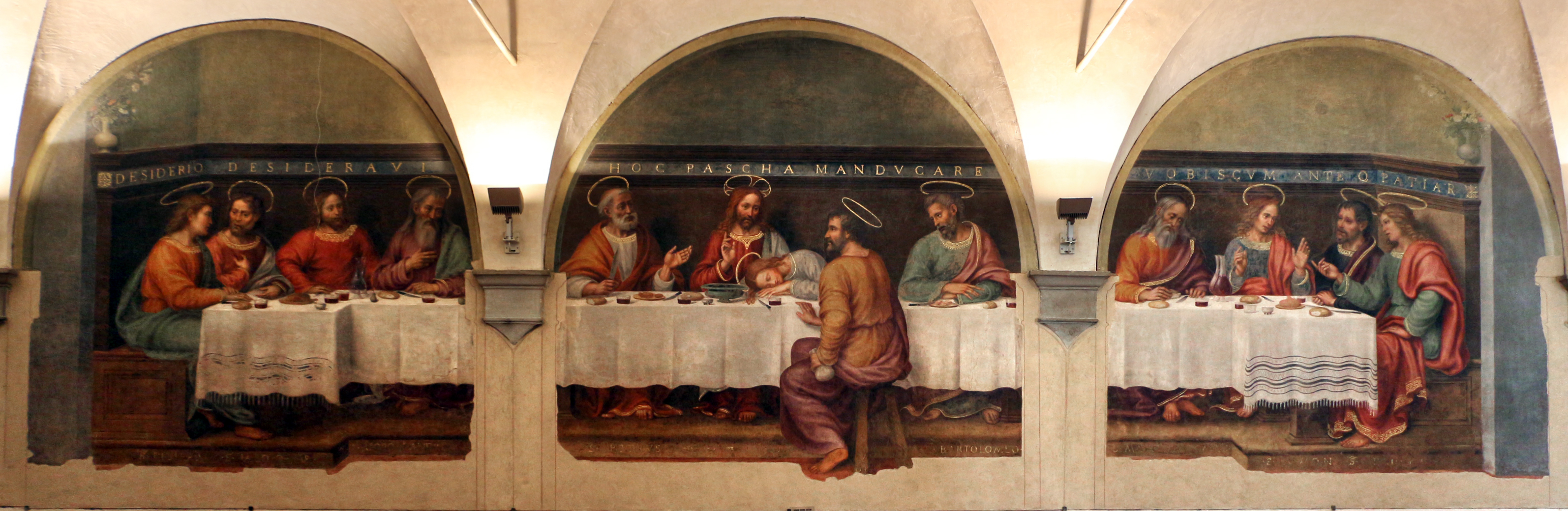 Santa Maria a Candeli - Refectory